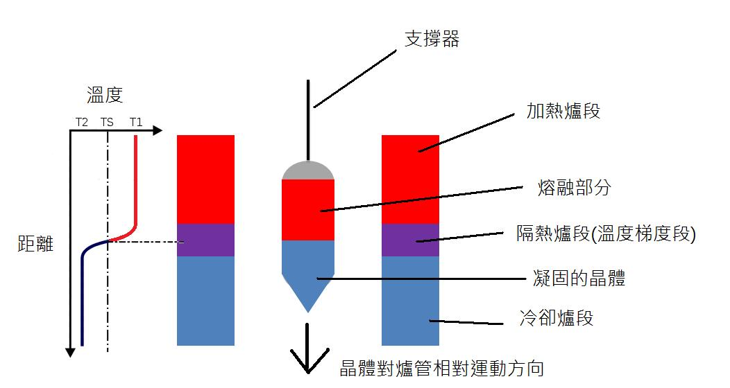 Description of Bridgman technique